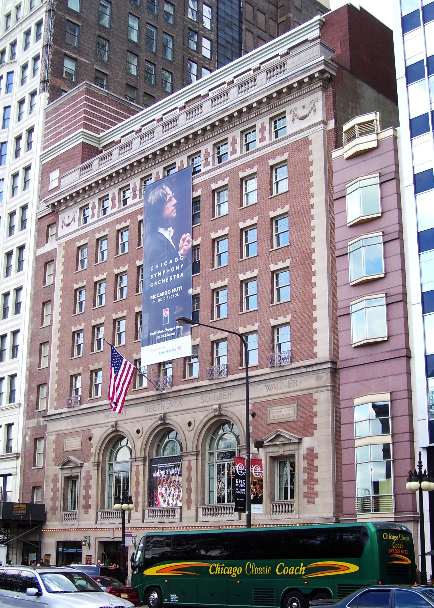 Orchestra Hall on South Michigan Avenue in Chicago, Illinois as seen from the north